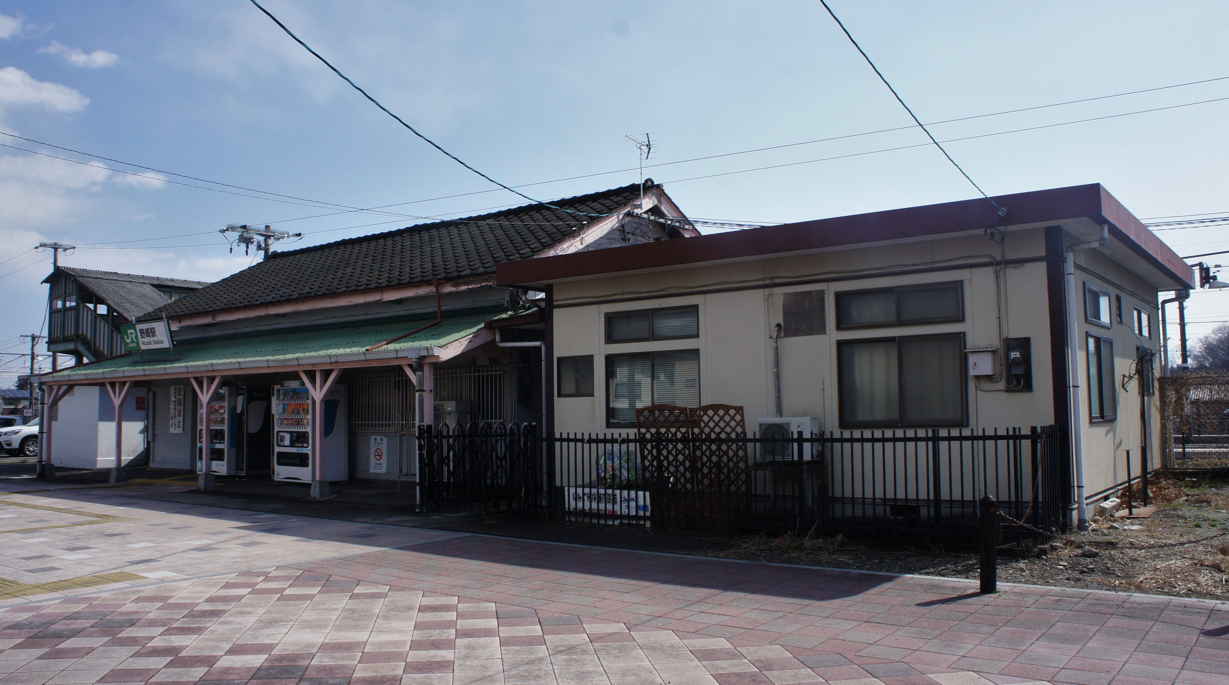 Station building of JR Tohoku-Main-Line (Utsunomiya-Line) Nozaki Station Sony NEX-3